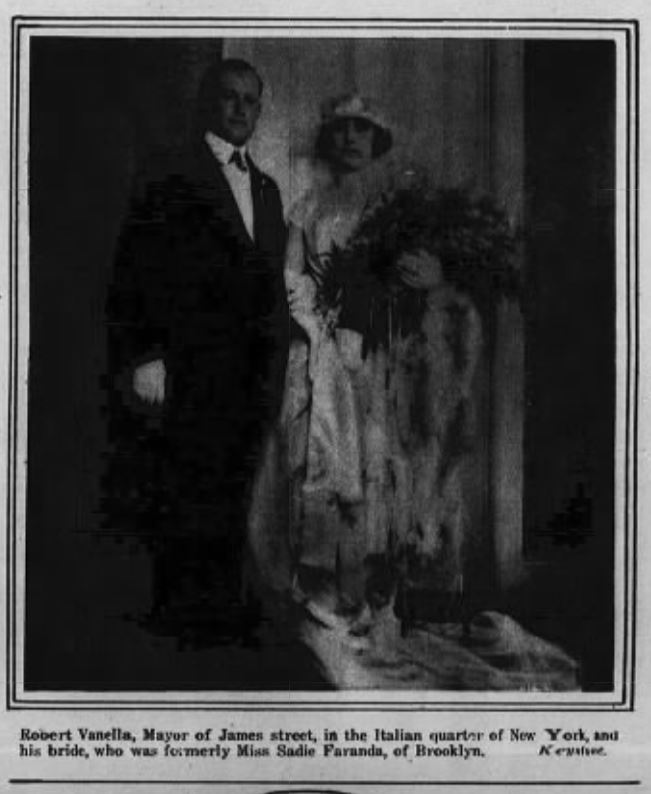 Wedding Photo of Robert Vanella of New York and Miss Sadie Faranda of Brooklyn